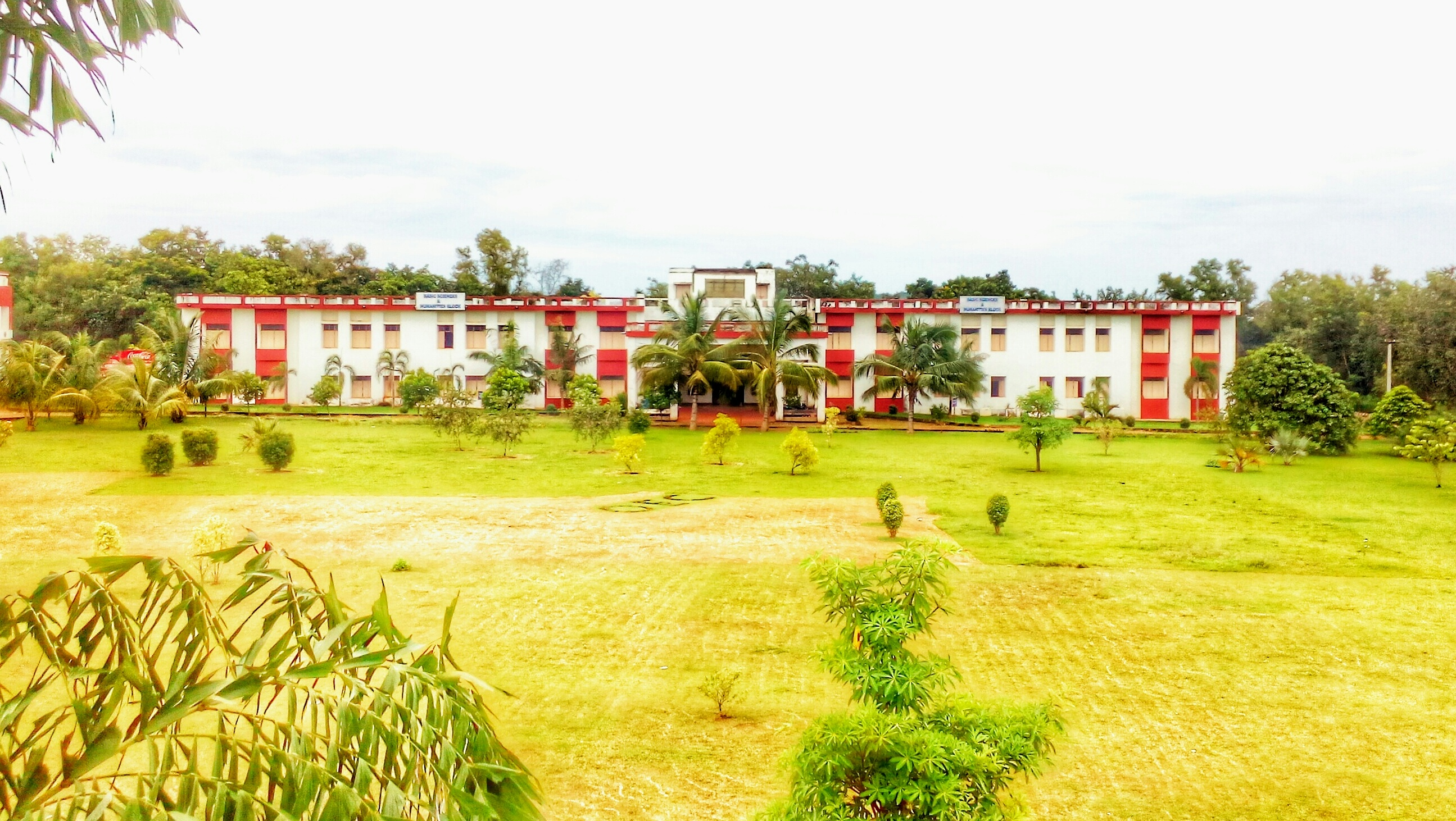 This is the Basic Science and Humanities Block of Orissa Engineering College(OEC) Bhubaneswar. The first year students are taught here.